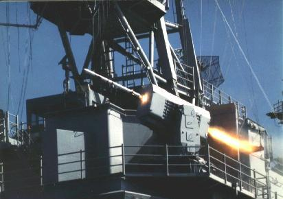 A launching RIM-116 Rolling Airframe Missile